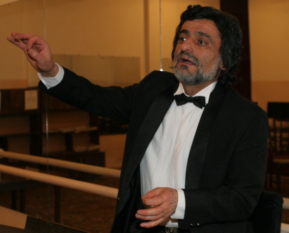 Photo of choirmaster of Armenian Opera Theater, Karen Sargsyan during the rehearsal.